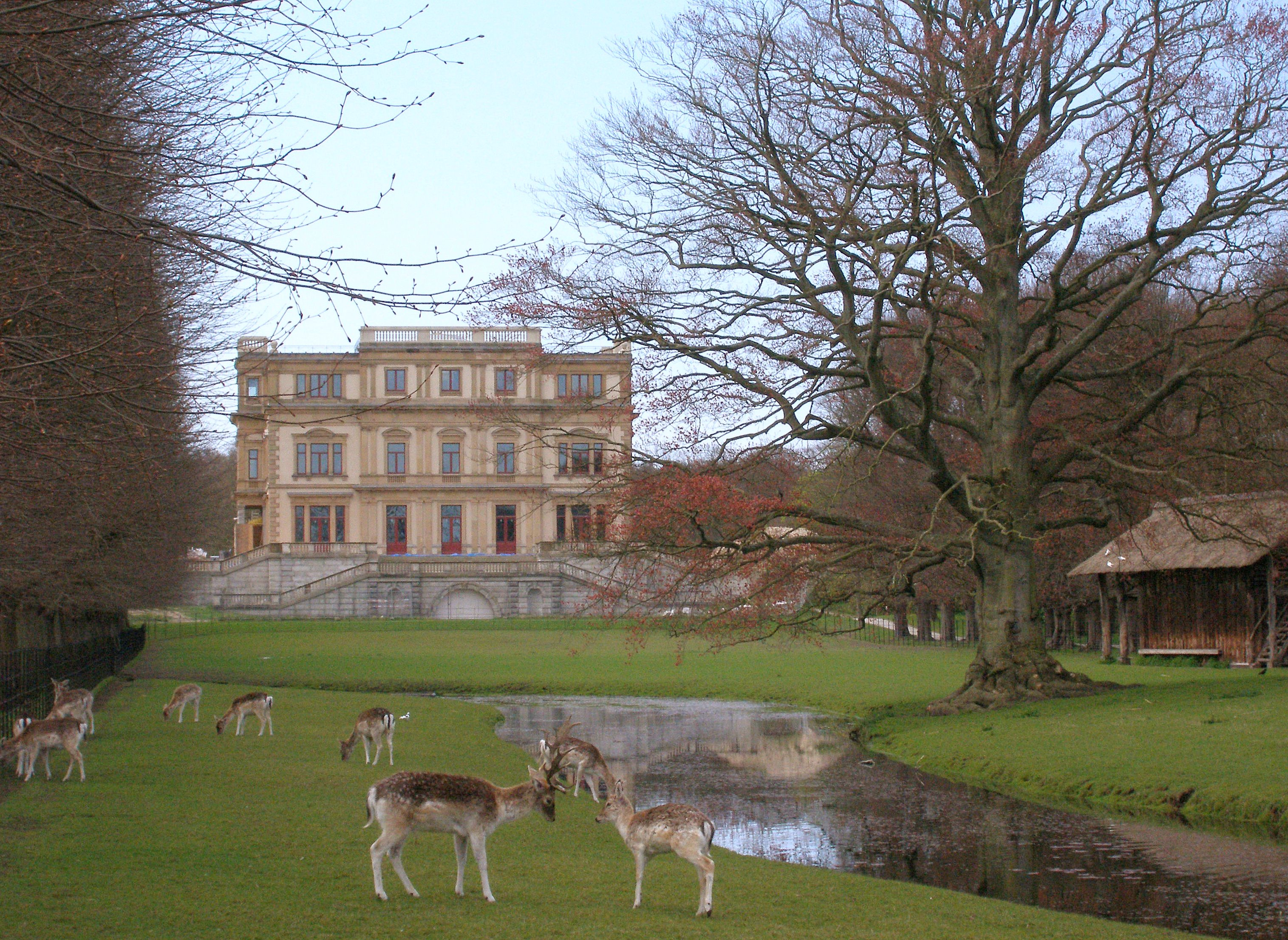 Landgoed Elswout is an estate in Overveen, the Netherlands.